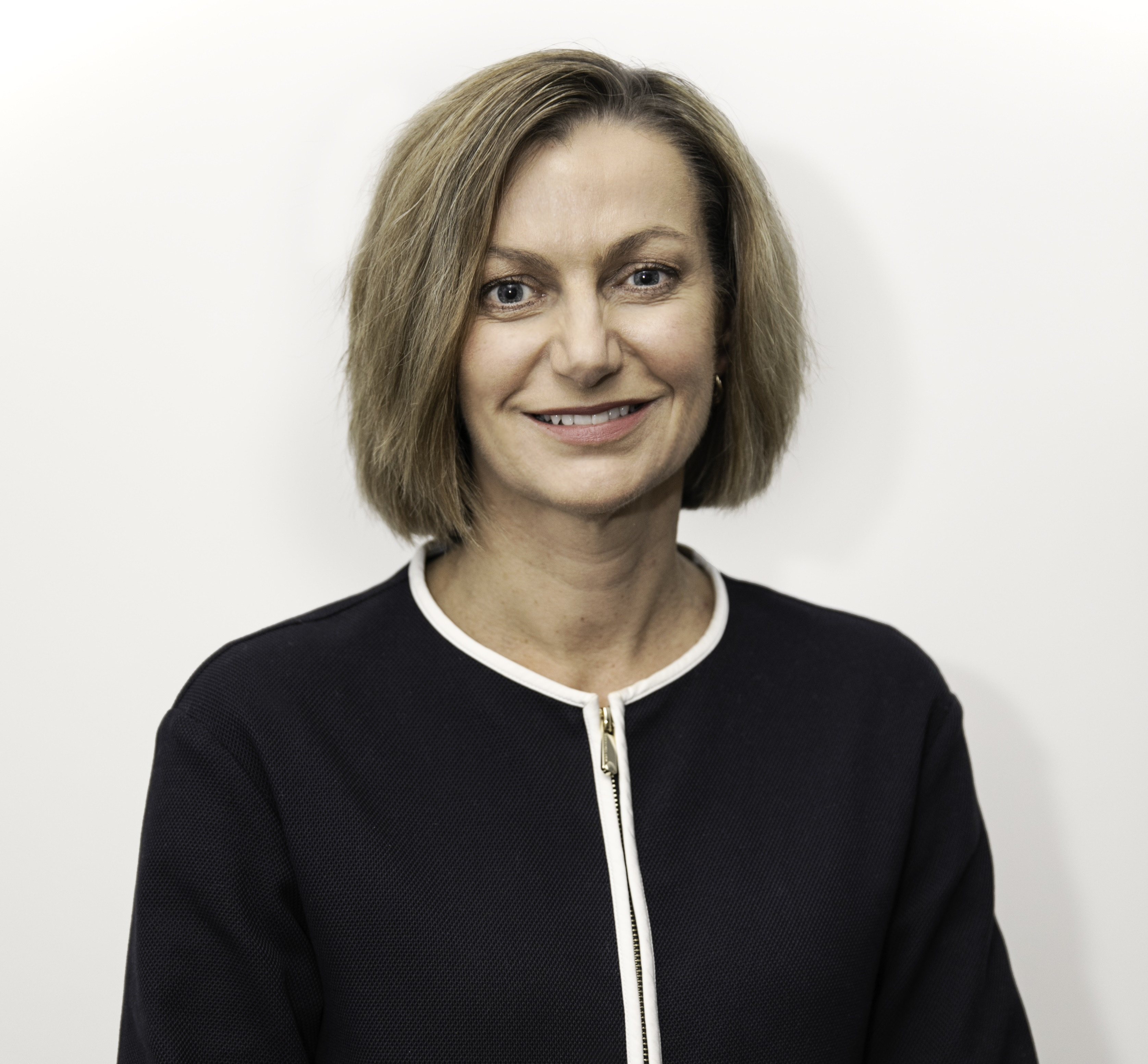 Tracey Gaudry